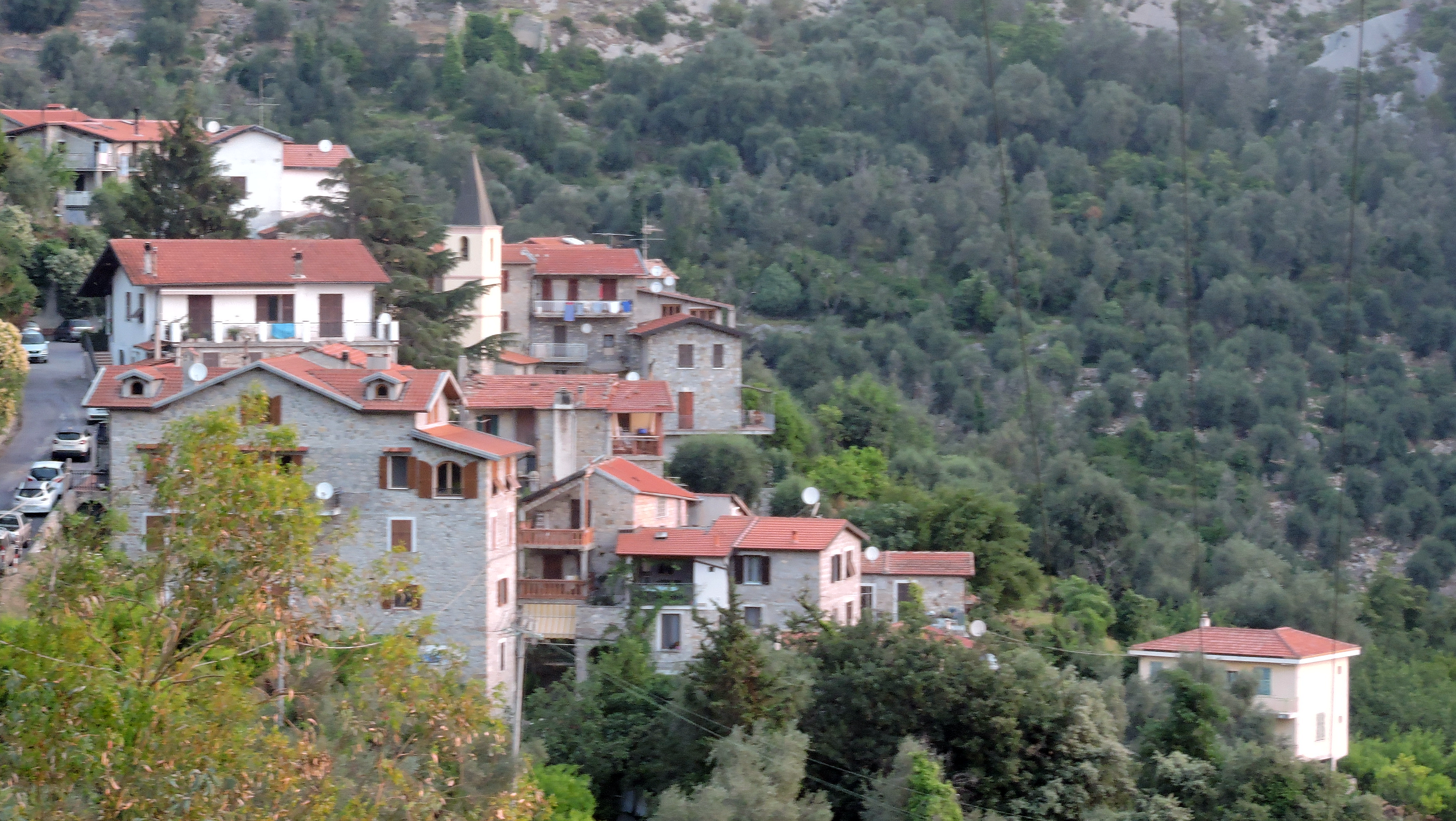 Villatella (Ventimiglia, IM, Italy)